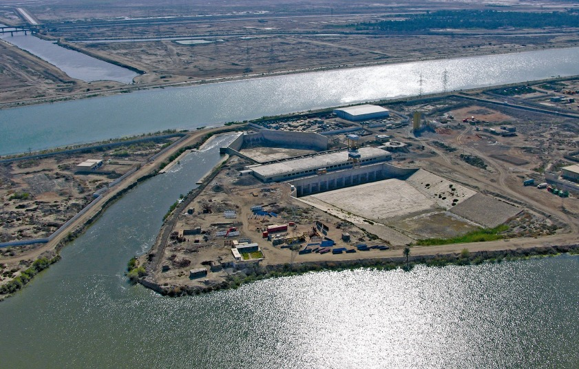 A view of the Nasiriyah Drainage Pump Station.